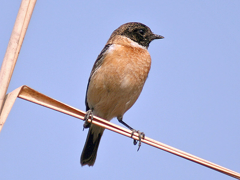 Siberian Stonechat Saxicola maurus at Hodal in Faridabad District of Haryana, India.